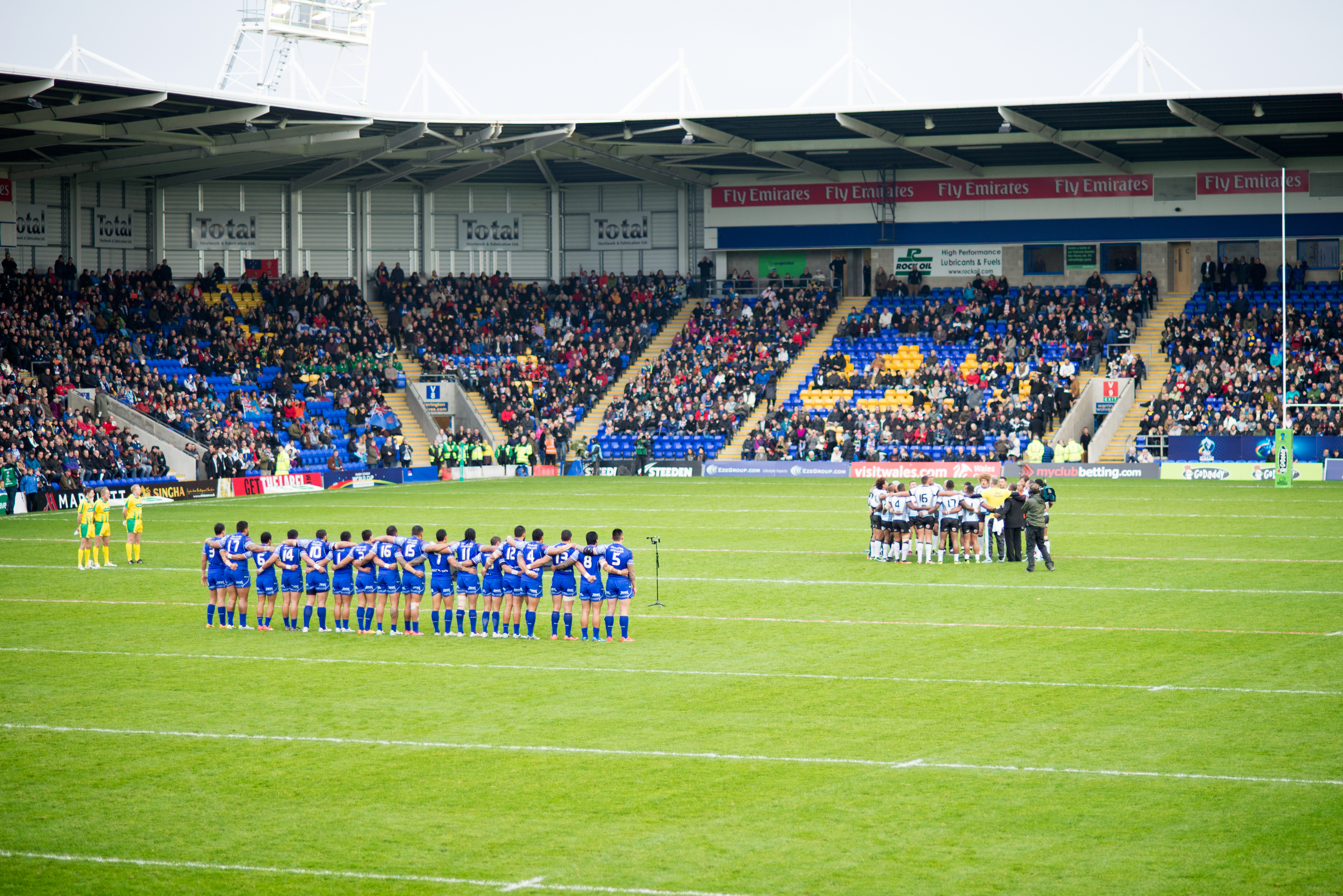 2013 Rugby League World Cup match between Samoa and Fiji at Halliwell Jones Stadium in Warrington.